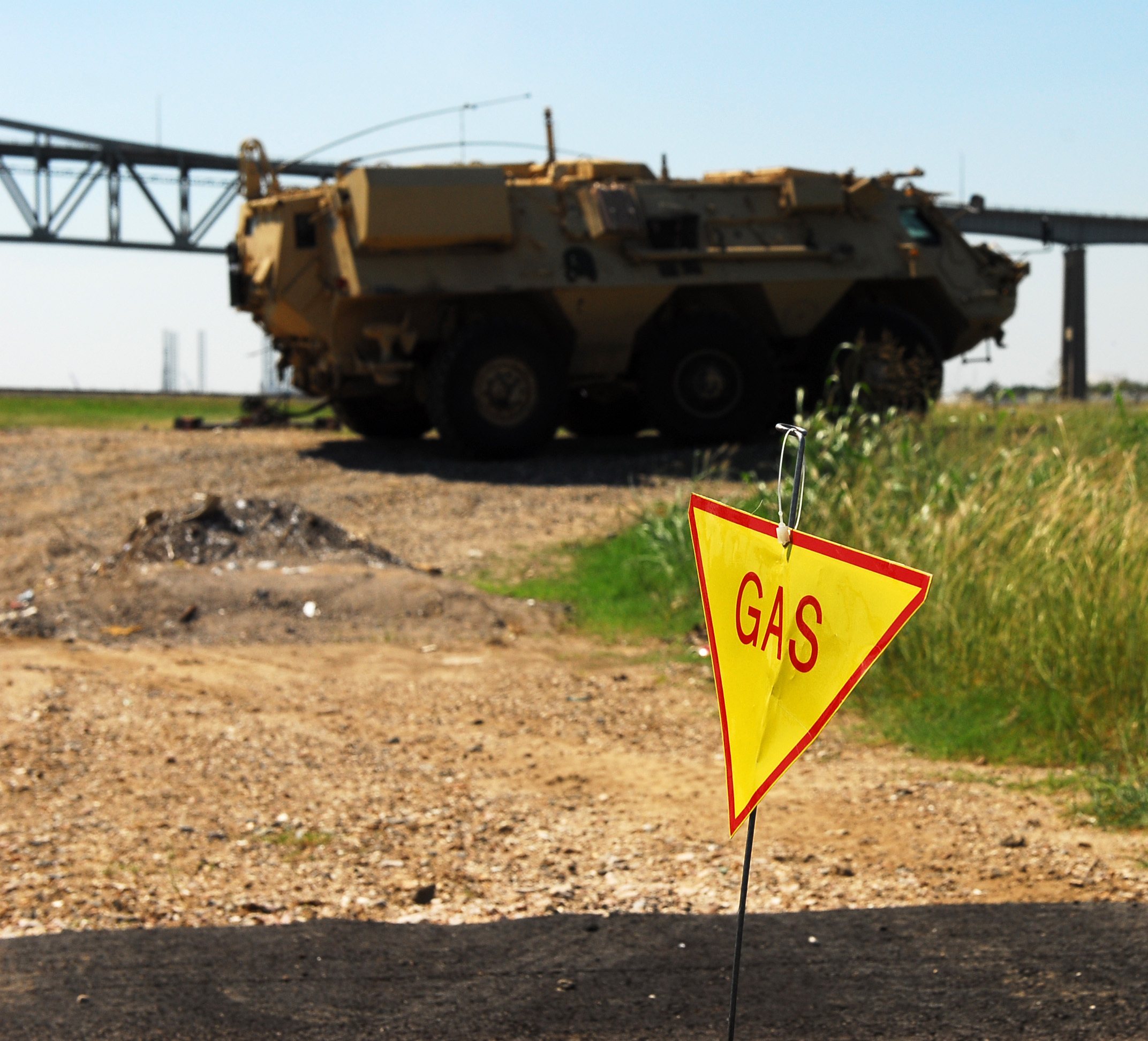 A M93A1 Fox, a rolling laboratory that takes air, water, and ground samples head out of the mock contamination area and over to a decontamination site to be sprayed off on Sept. 28. The Fox is a part of the 44th Chemical Company training for an upcoming deployment.